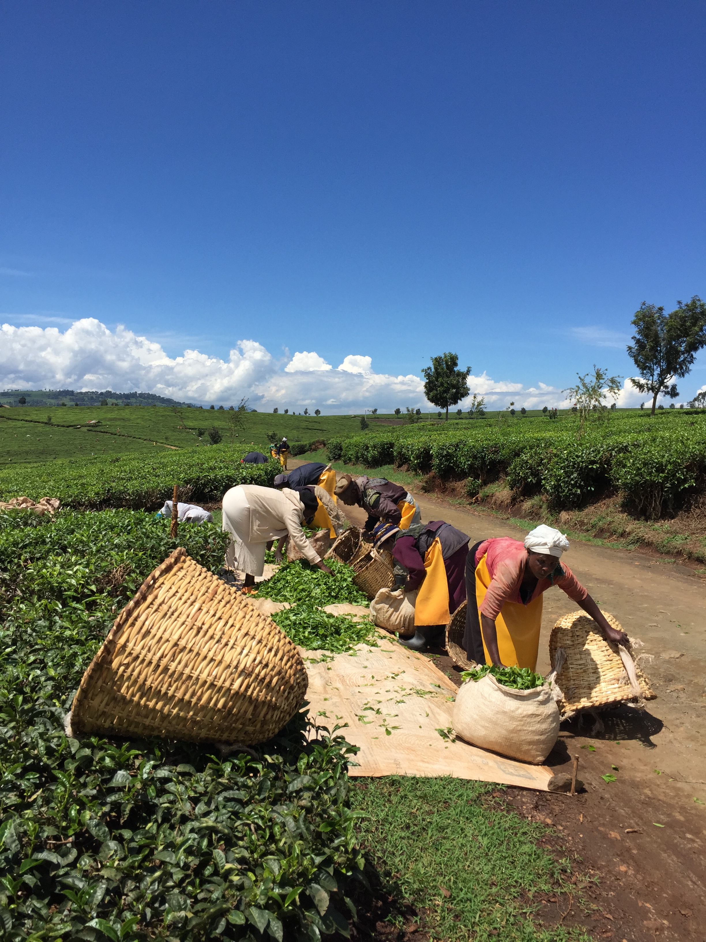 Tea pickers are working from 7am to 4pm everyday. A basket can contain around 20 kilograms of tea leaves. The fastest tea pickers can fill it in about an hour. After that, the leaves are filed to be checked by foremen. A truck comes to pick the bags and bring them to the factory for the next step of the process. This is an image with the theme "Africa on the Move or Transport" from: Kenya